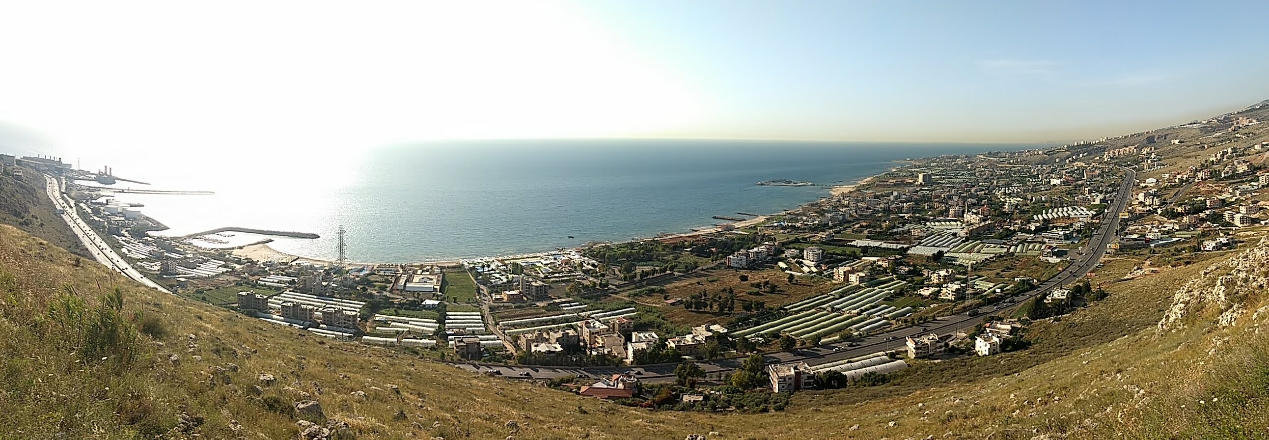 A panoramic photo of Jieh, Lebanon taken on the 18th of May, 2018.